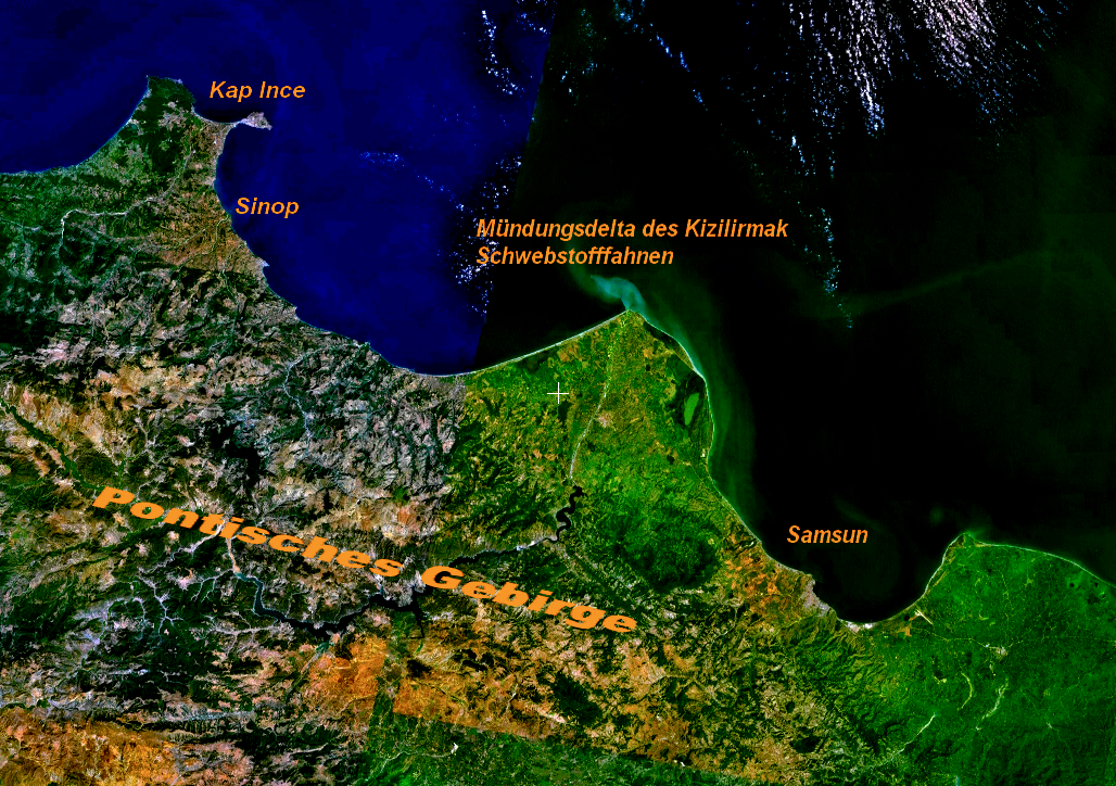 Using NASA Wordl wind 1.3